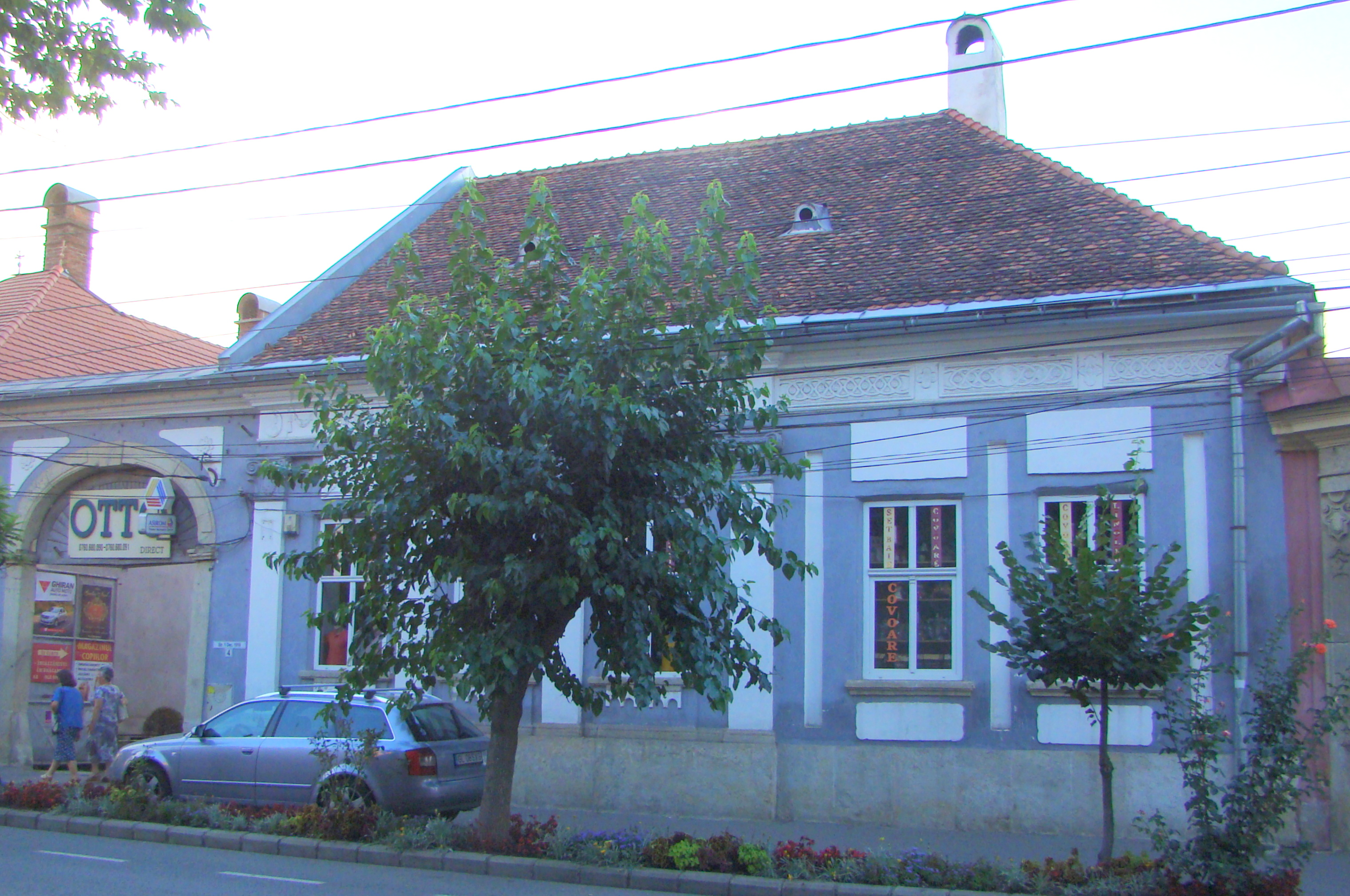 House, historic monument in Gherla, 1 Decembrie 1918 street, nr 4